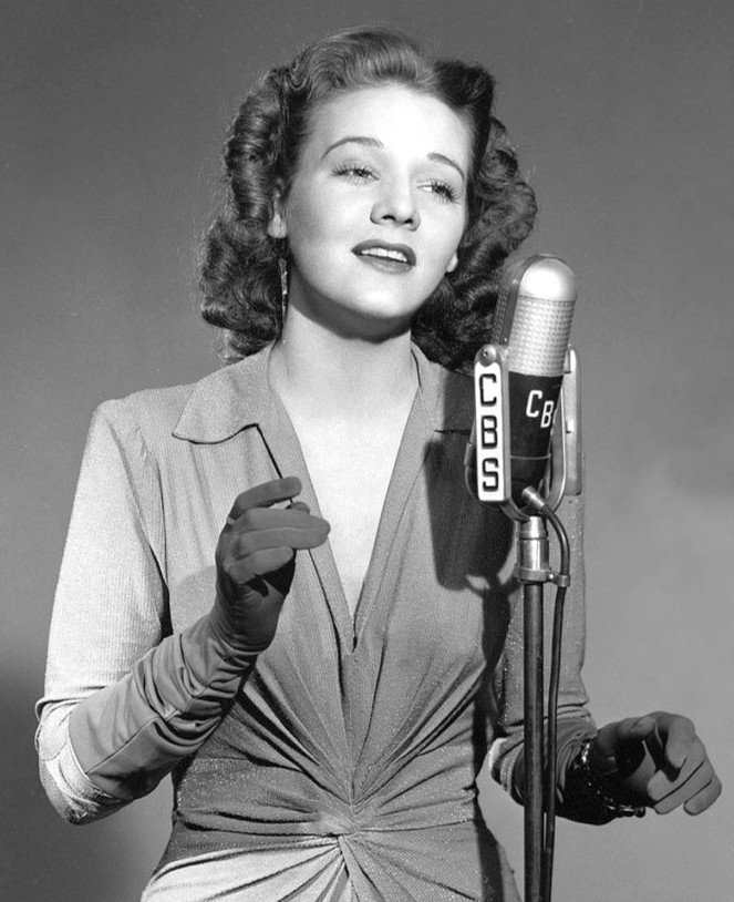 Photo of vocalist and actress Dorothy Shay. She called herself "the Park Avenue Hillbilly".